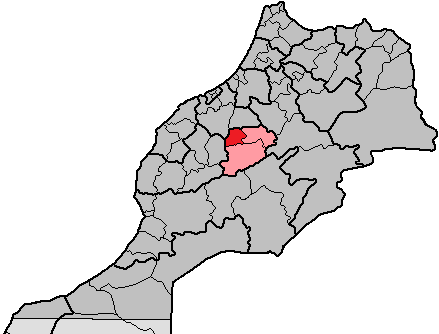 Location of the province Fquih Ben Salah within the region Tadla-Azilal, Morocco. In total, Morocco has 16 regions, subdivided into 62 provinces and 13 prefectures.